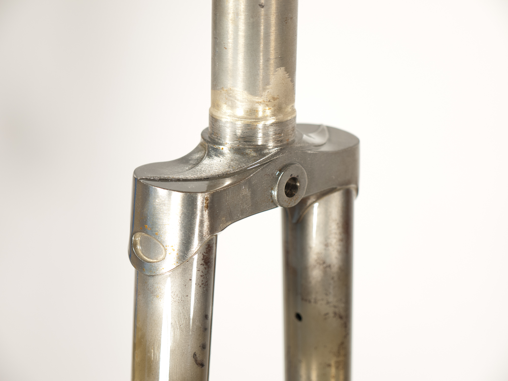 Raw Clear Powdercoat Rivendell Roadeo handmade 1-inch chromoly (threadless or threaded) fork